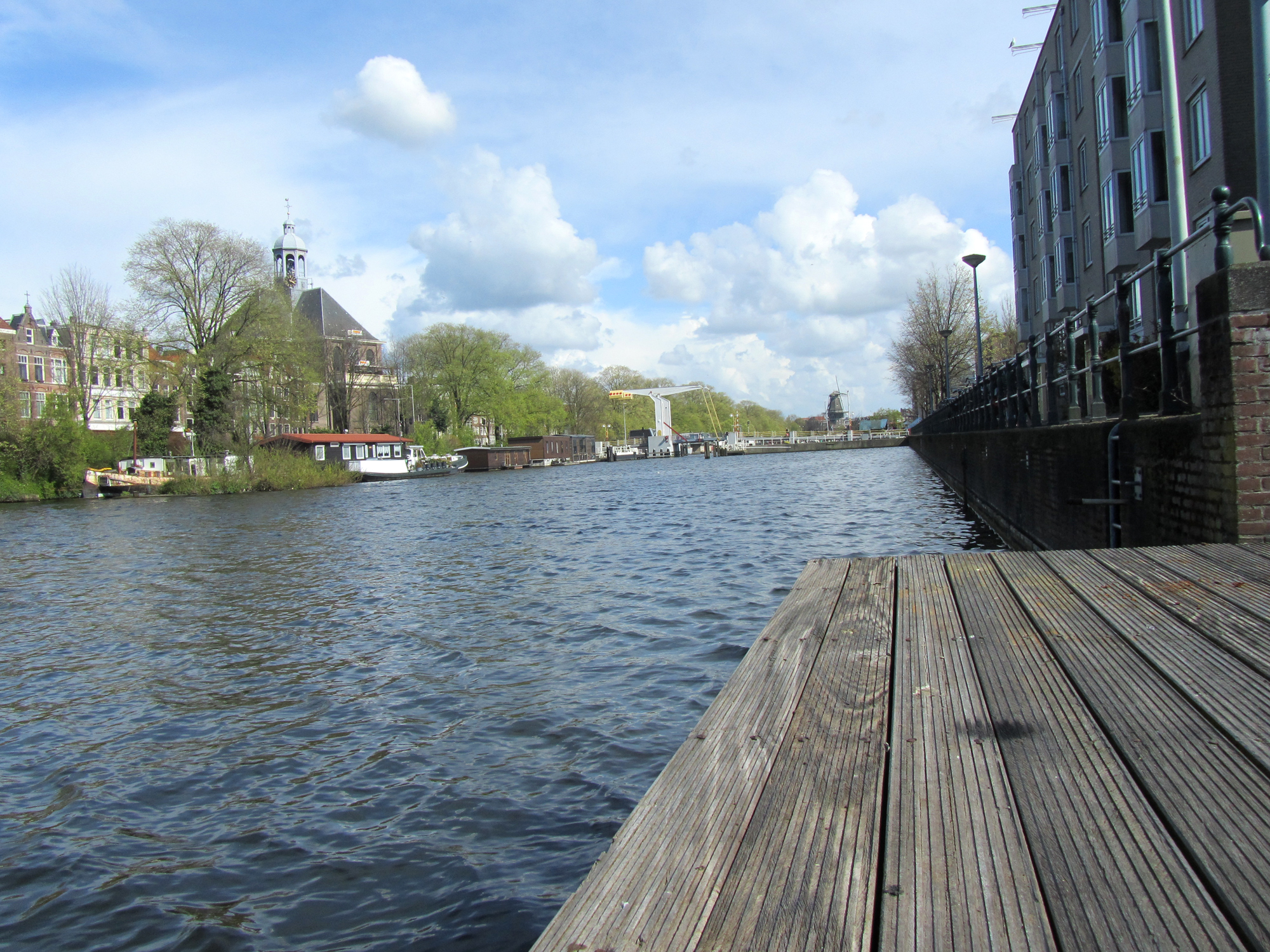 Nieuwe Vaart canal in Amsterdam, looking east. On the left is the Oosterkerk church. The windmill De Gooyer is visible in the distance.